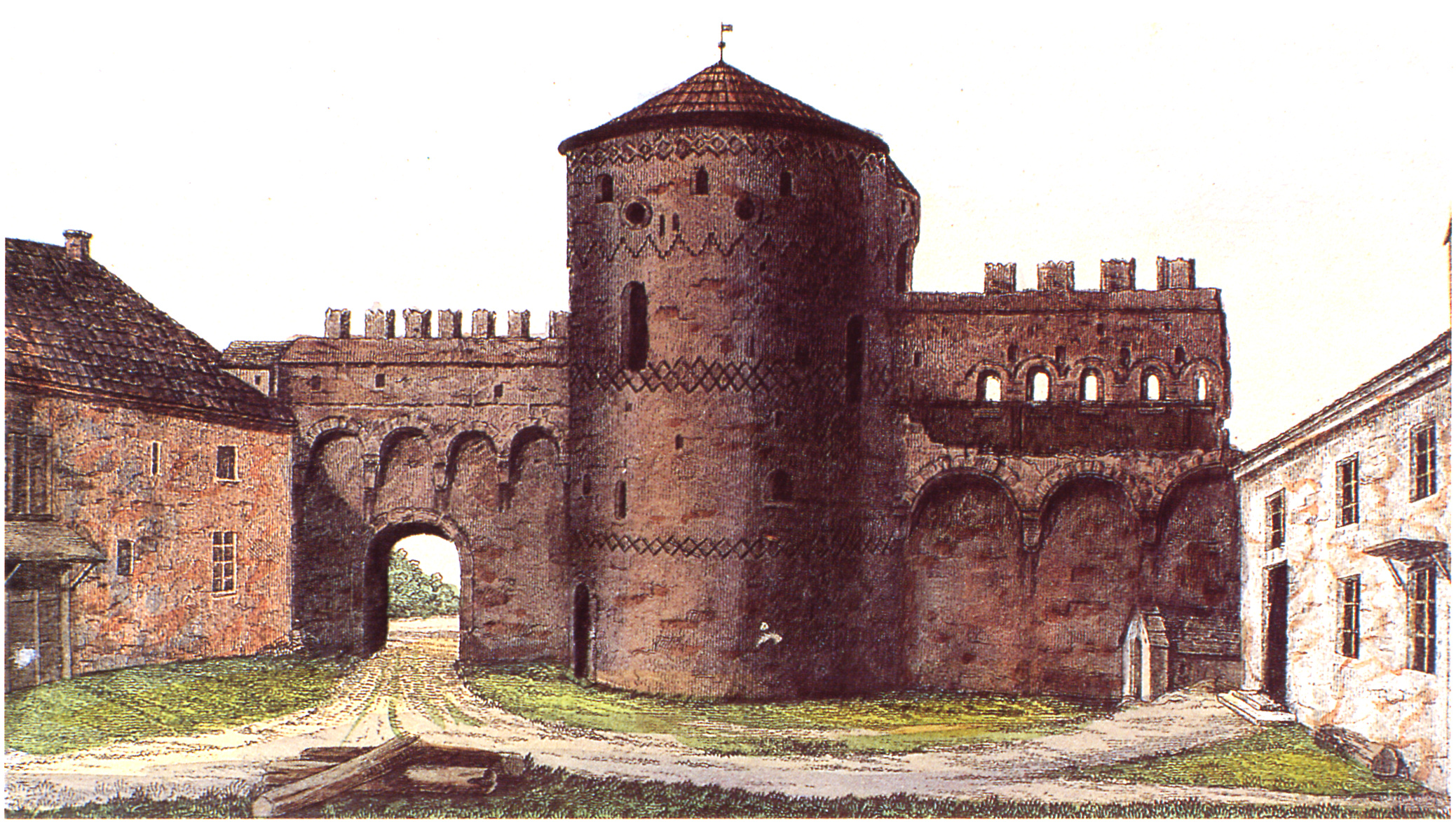 The old castle in Neustadt-Glewe